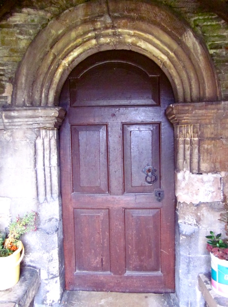 Romanesque revival south doorway of North Scarle, Lincolnshire